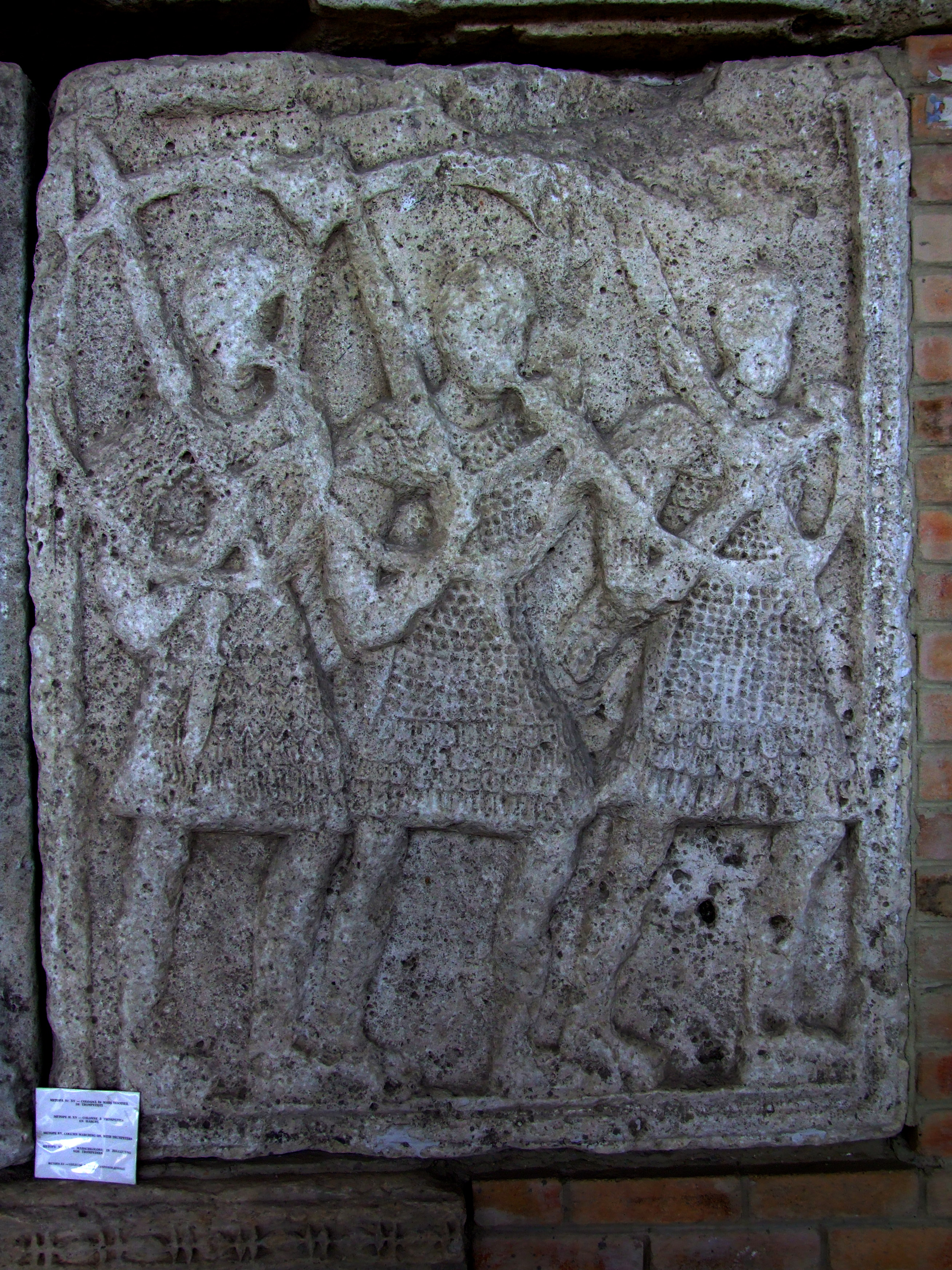 Tropeum Traiani Metope